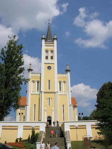 Church in Croatia